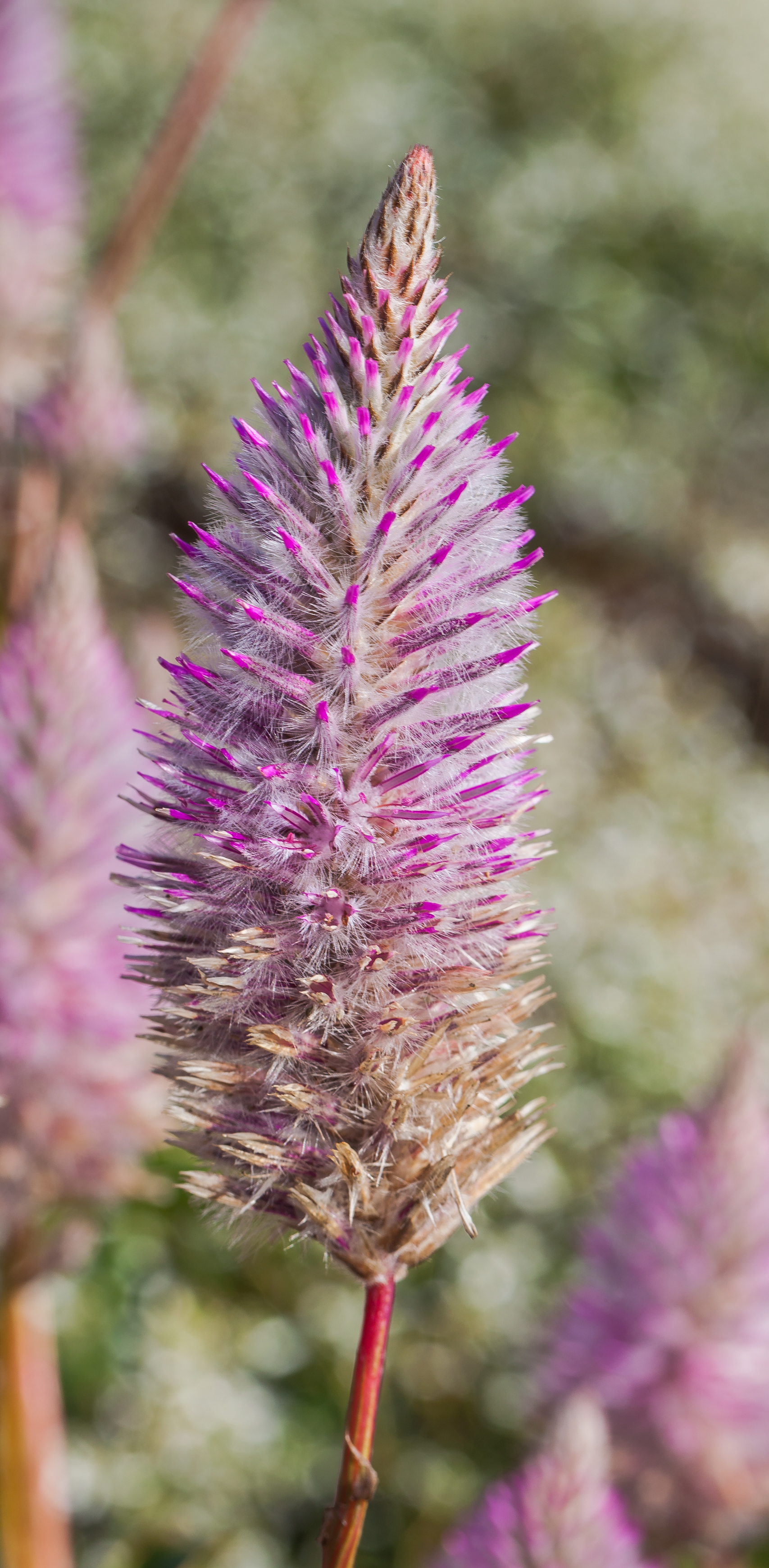 Ptilotus exaltatus, Tallinn Botanic Garden, Estonia